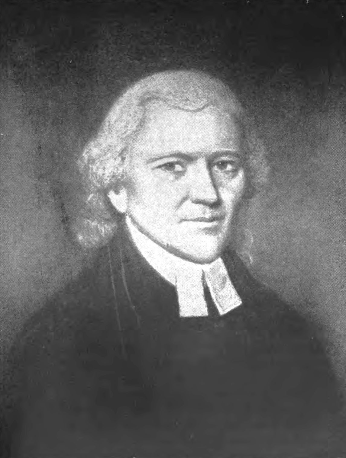 Portrait photograph of United States Lutheran clergyman John Christopher Kunze